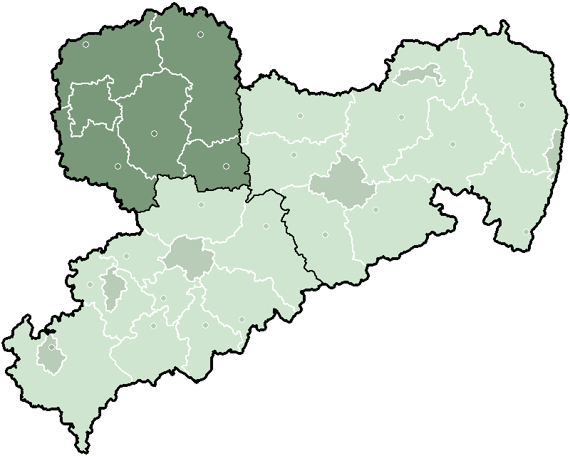 Map of the state Saxony in Germany before 2008, government region Leipzig highlighted.